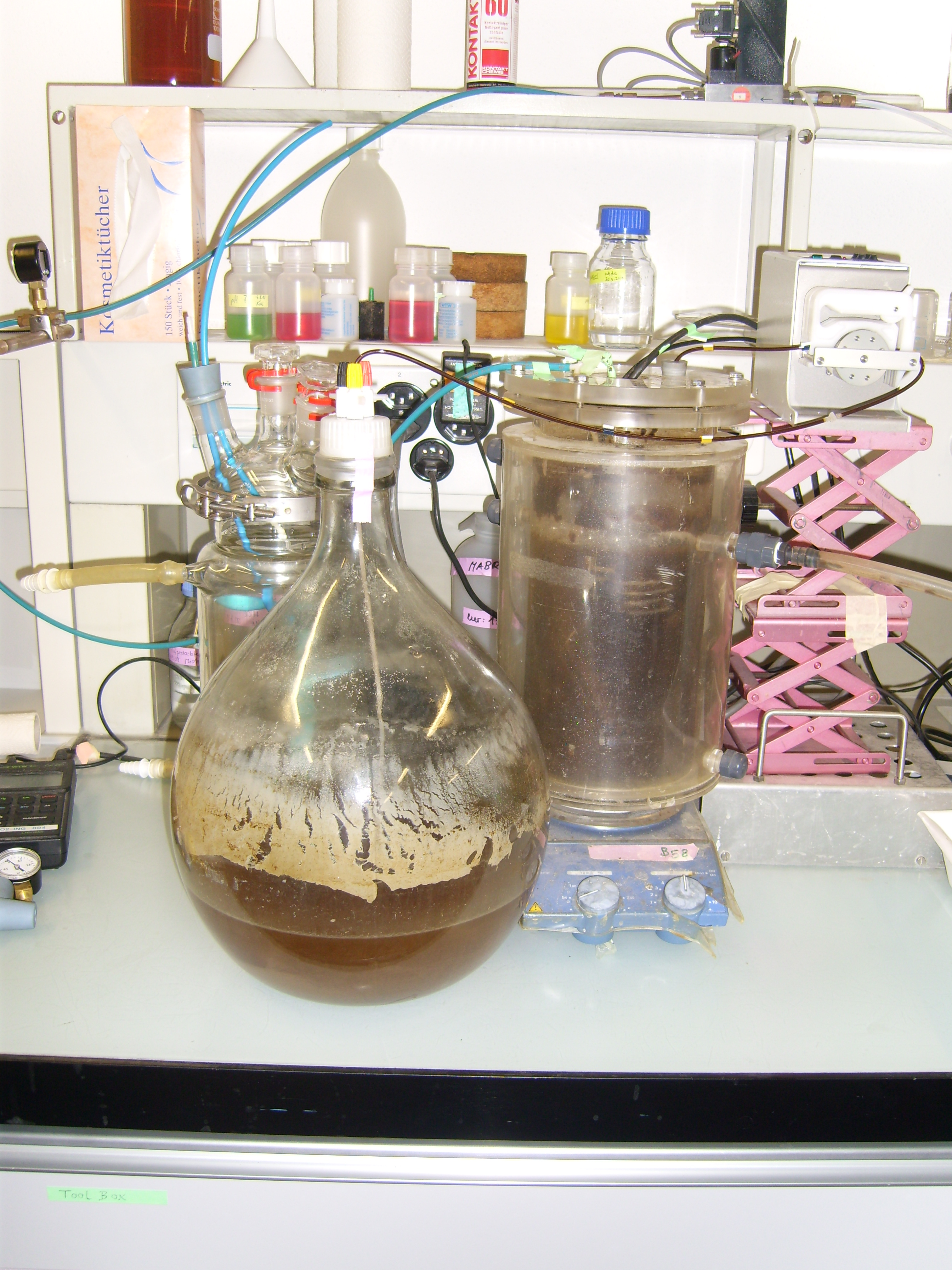 Another option to reduce the volume of urine and to keep all the nutrients is currently being researched at Eawag, Switzerland: Before the water is evaporated, urine is partially nitrified to nitrate and the pH decreases to values below 6.5. A white solid remains and an odourless clear liquid (the distillate) with ammonia-N content of only around 100 mg/L. This research is funded by Bill and Melinda Gates Foundation, and a pilot-scale reactor is being implemented soon.